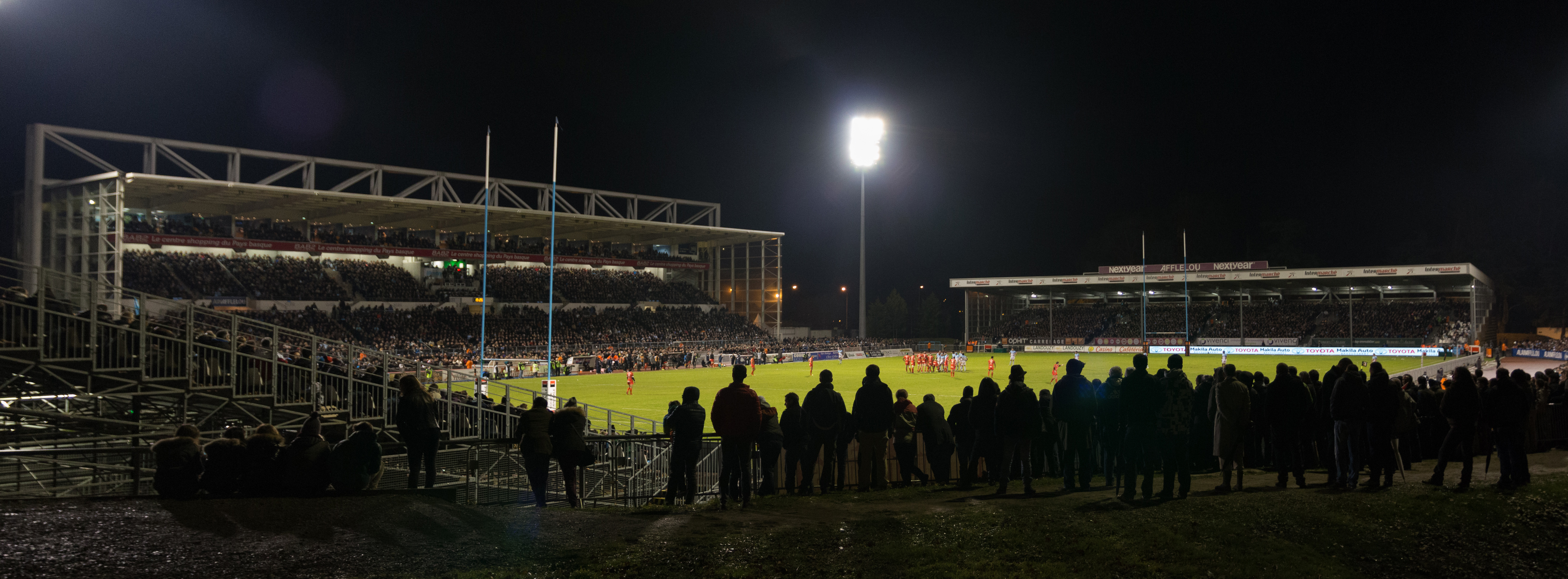 The Aviron Bayonnais meeting the Stade Toulousain at the Stade Jean Dauger.